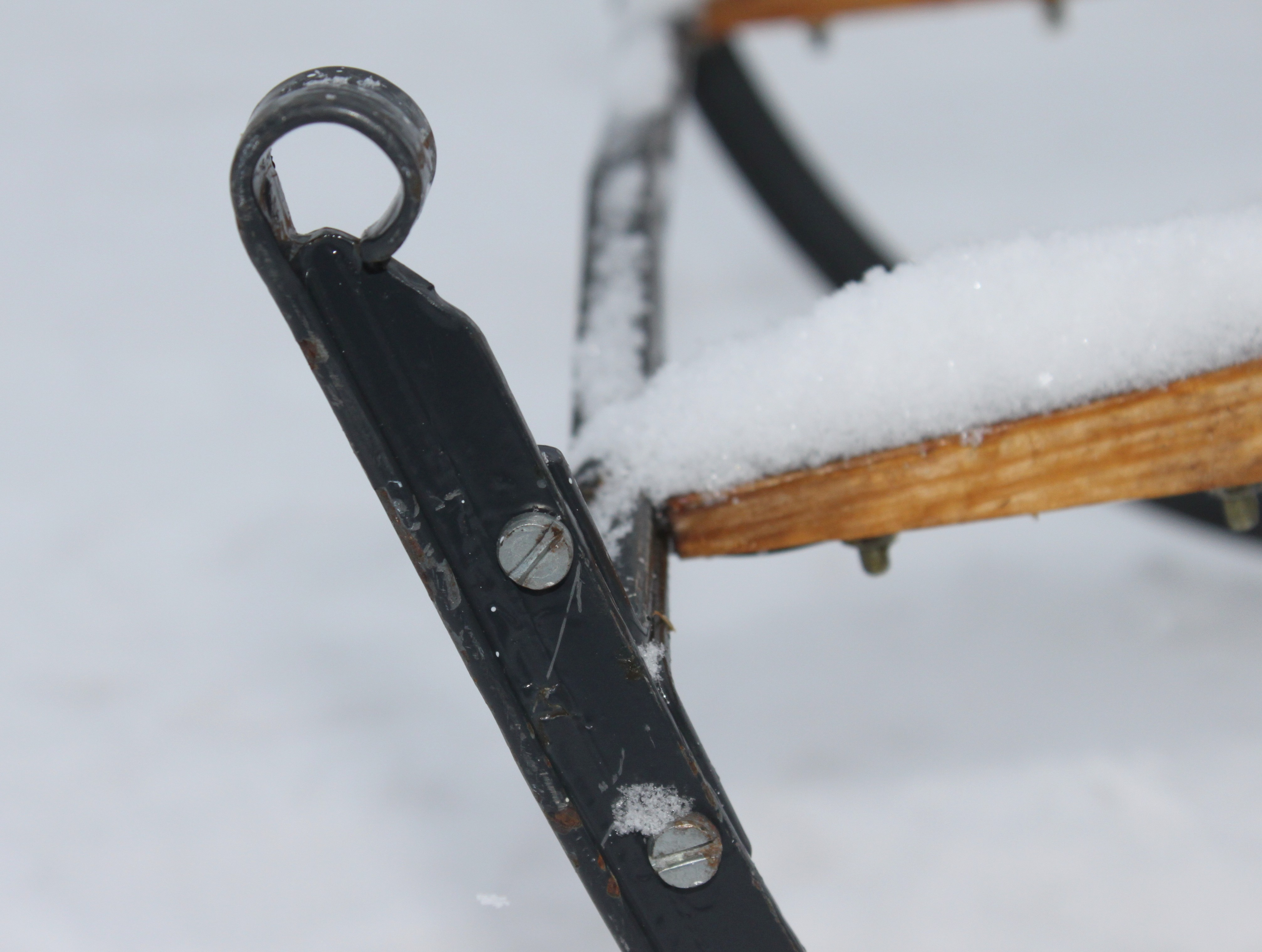 Part of a Swedish kicksled, the Orsa-model, with the curved end of a runner